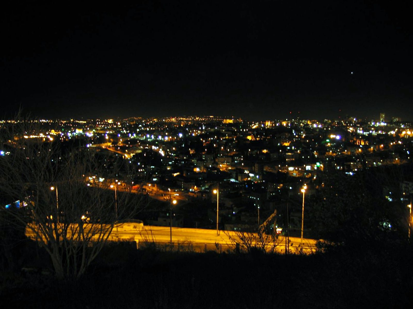 Jerusalem East Jerusalem Wadi al Joz night view from Mount Scopus